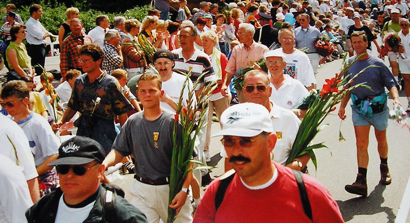 Entry - 81st International Nijmegen Four Days Marches (1997)